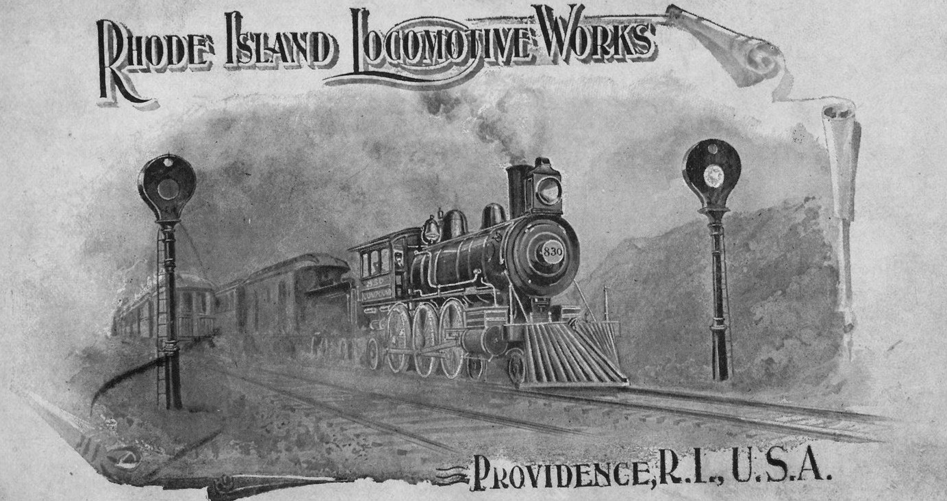 Front cover of a sales catalog for Rhode Island Locomotive Works.